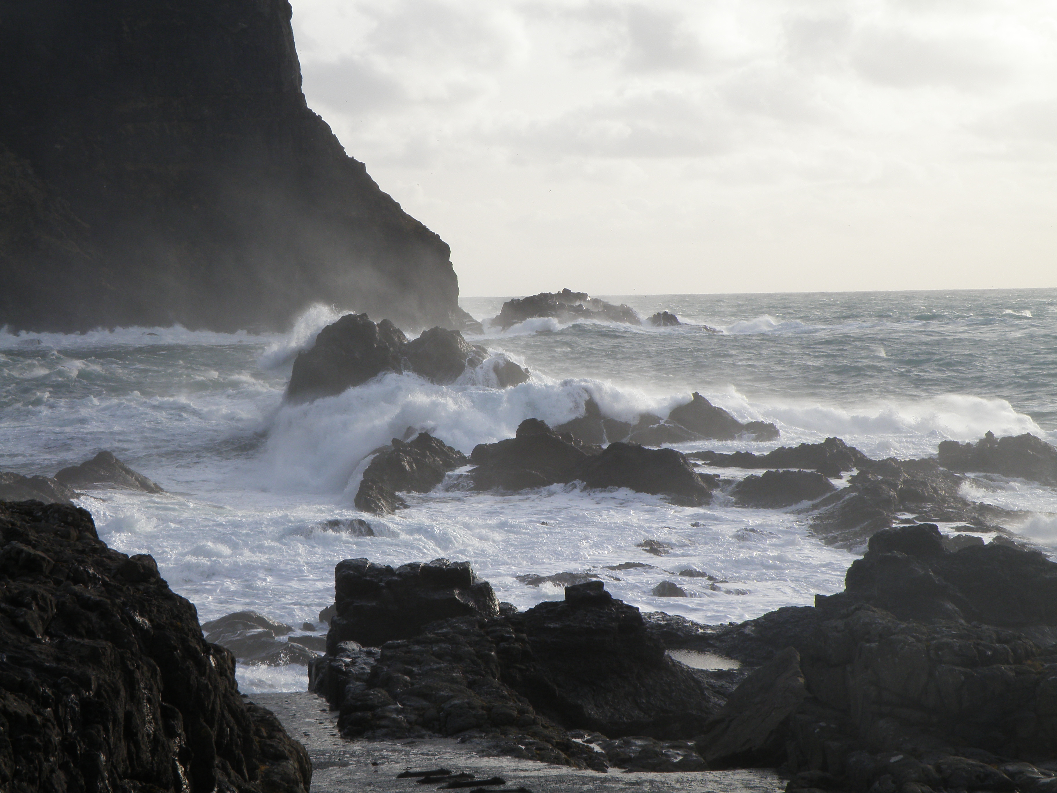 Heltnarnar is a skerry or rocky reef on Vágseiði west of the village Vágur, Faroe Islands. Vágur is a village on the southernmost island, Suðuroy (South Island). The sea is often rough around the skerry Heltnarnar. This place used to be in use as a fishing harbour in the 19th and early 20th century. Føroyskt: Heltnarnar er eitt sker vestanfyri Vágseiði í Suðuroynni. Tað sær út sum um har eru fleiri sker, tí sjógvurin brýtur ofta uppum skerið, og tað er ymiskt hvussu høgt tað tað er, í støðum er tað eitt sindur høgt og í støðum er tað næstan javnt við havið. Kleivin er beint við Heltnarnar. Kleivin er á Vágseiðinum, tað var har ið bátarnir komu uppá land og fóru á sjógv, burtursæð frá tí tíðini, tá tráðbanin á Eiðinum var í brúk. Hann bleiv fyrst gjørdur í 1906, áðrenn elverkið varð bygt. Tráðbanini gjørdi, at bátarnir kundu hálast upp frá Múlagjógv og síðan hálast við tráðbananum vestur um helluna og upp á land, har neystini stóðu. Neystini vóru skolaði burtur í stormi og uppgangi 14. januar 1989.